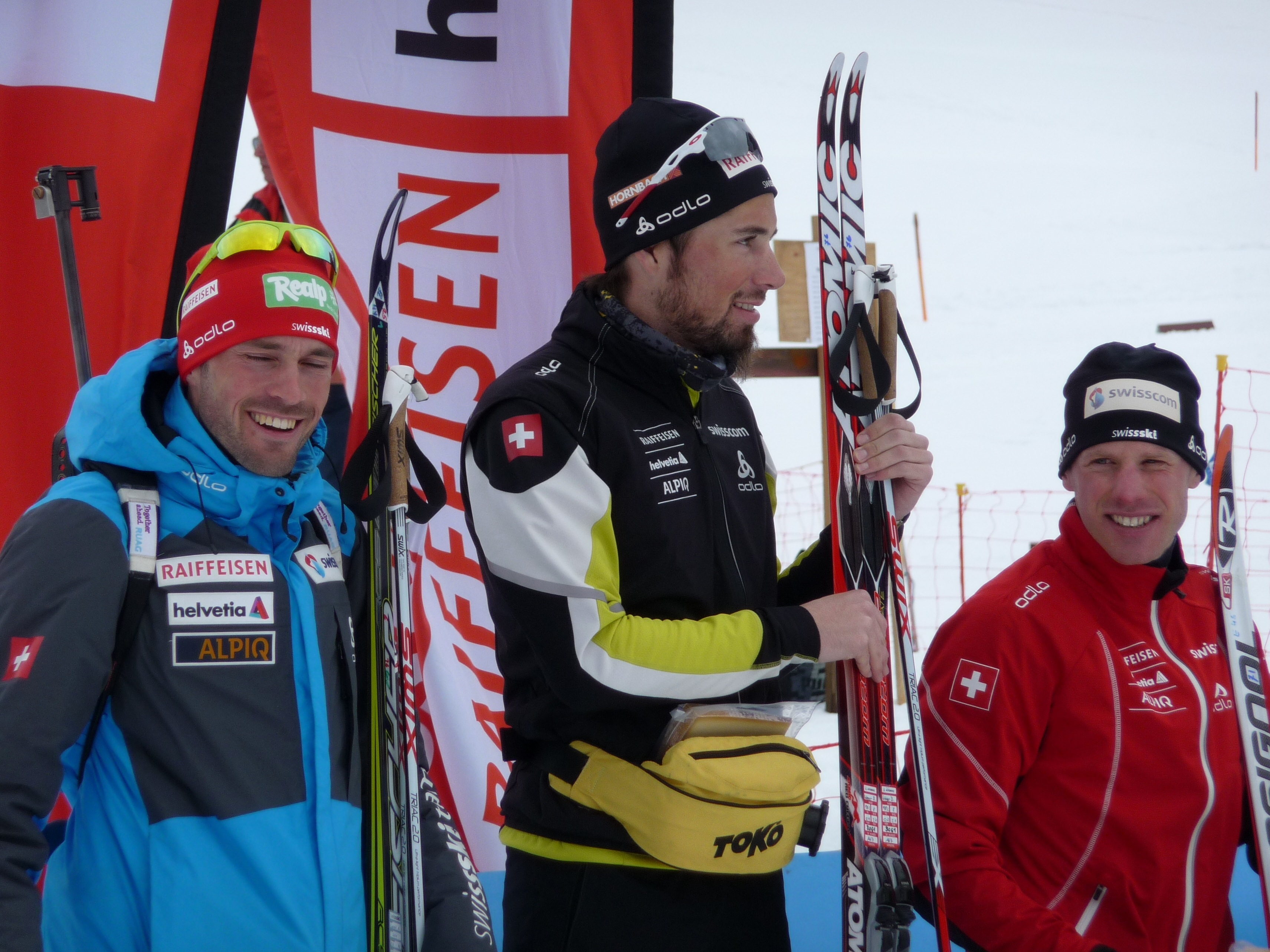 Swiss biathletes Ivan Joller, Benjamin Weger and Christian Stebler at National Championships in Biathlon 2013 (Podium Sprint Race) in La Lécherette, Switzerland